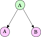 This work has been released into the public domain by its author, Superperro at the English Wikipedia project. This applies worldwide. In case this is not legally possible: Superperro grants anyone the right to use this work for any purpose, without any conditions, unless such conditions are required by law.